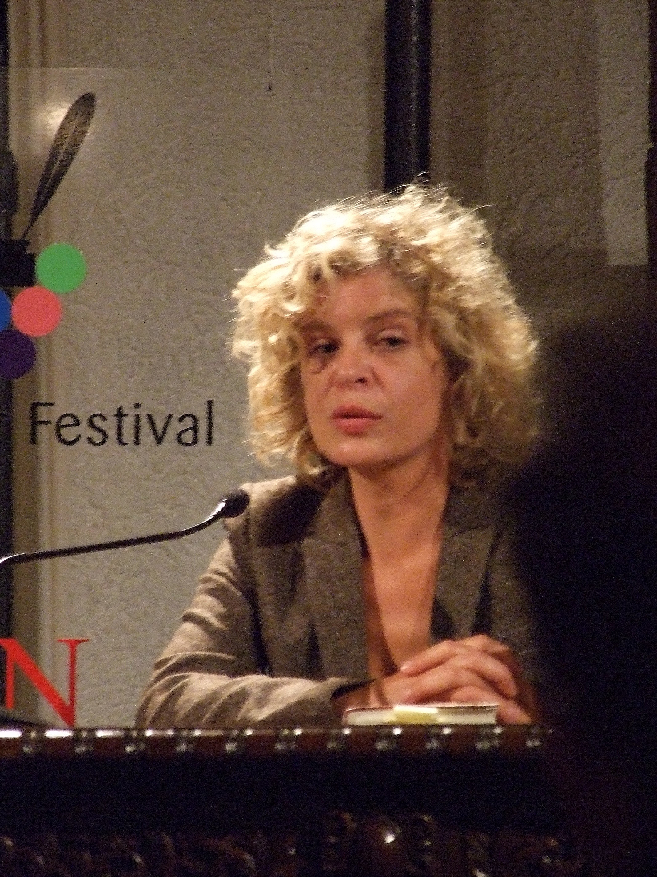 Susanne Schaedlich, German writer, 2009